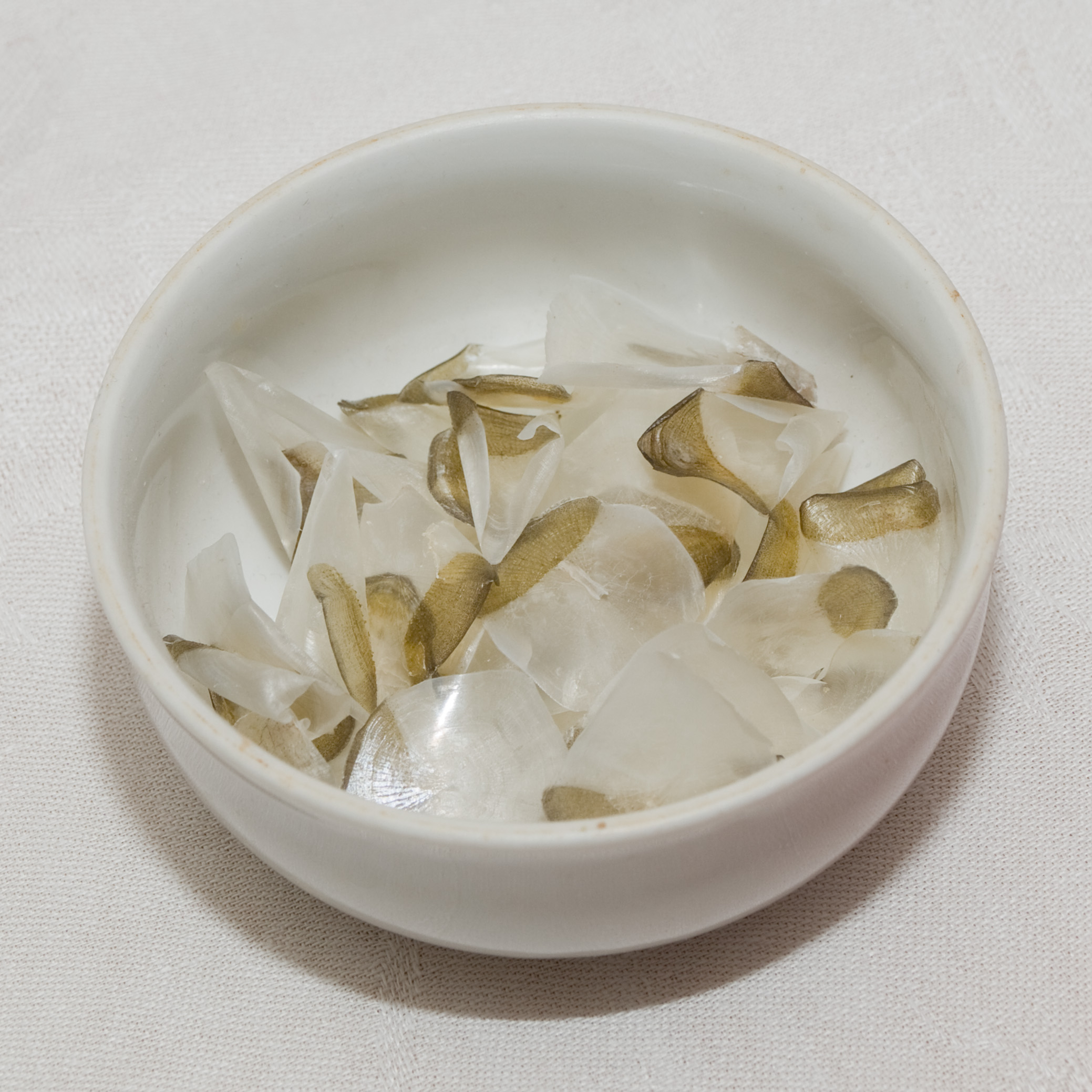 Carp scales, tradicional Czech christmas